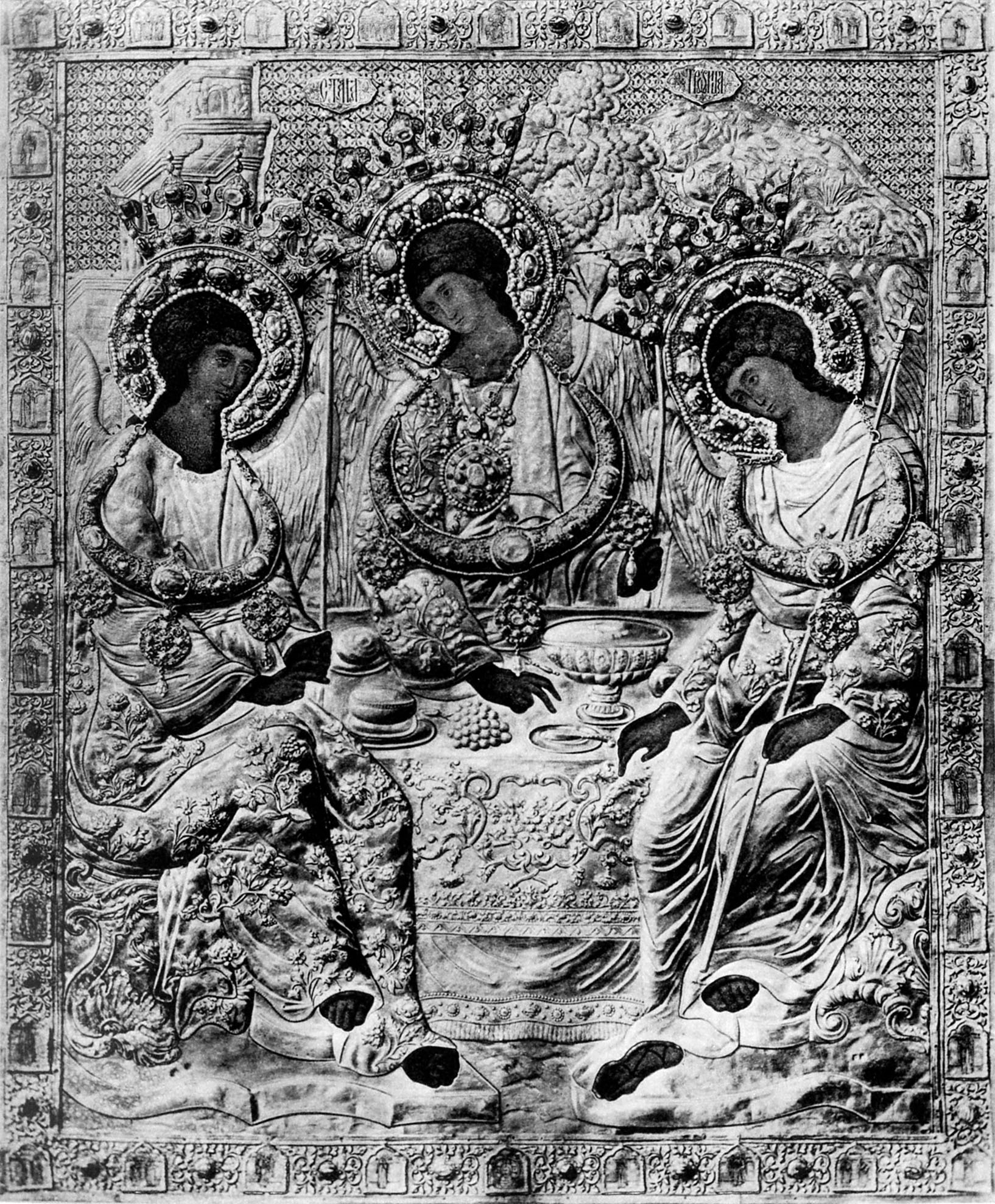 Rublev's Trinity in riza (before 1904)